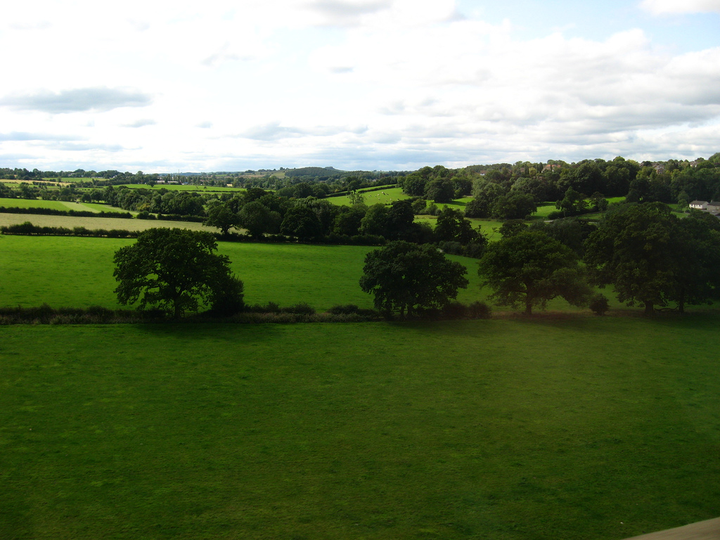 View of Crimple Valley, outside of Harrogate, from a train